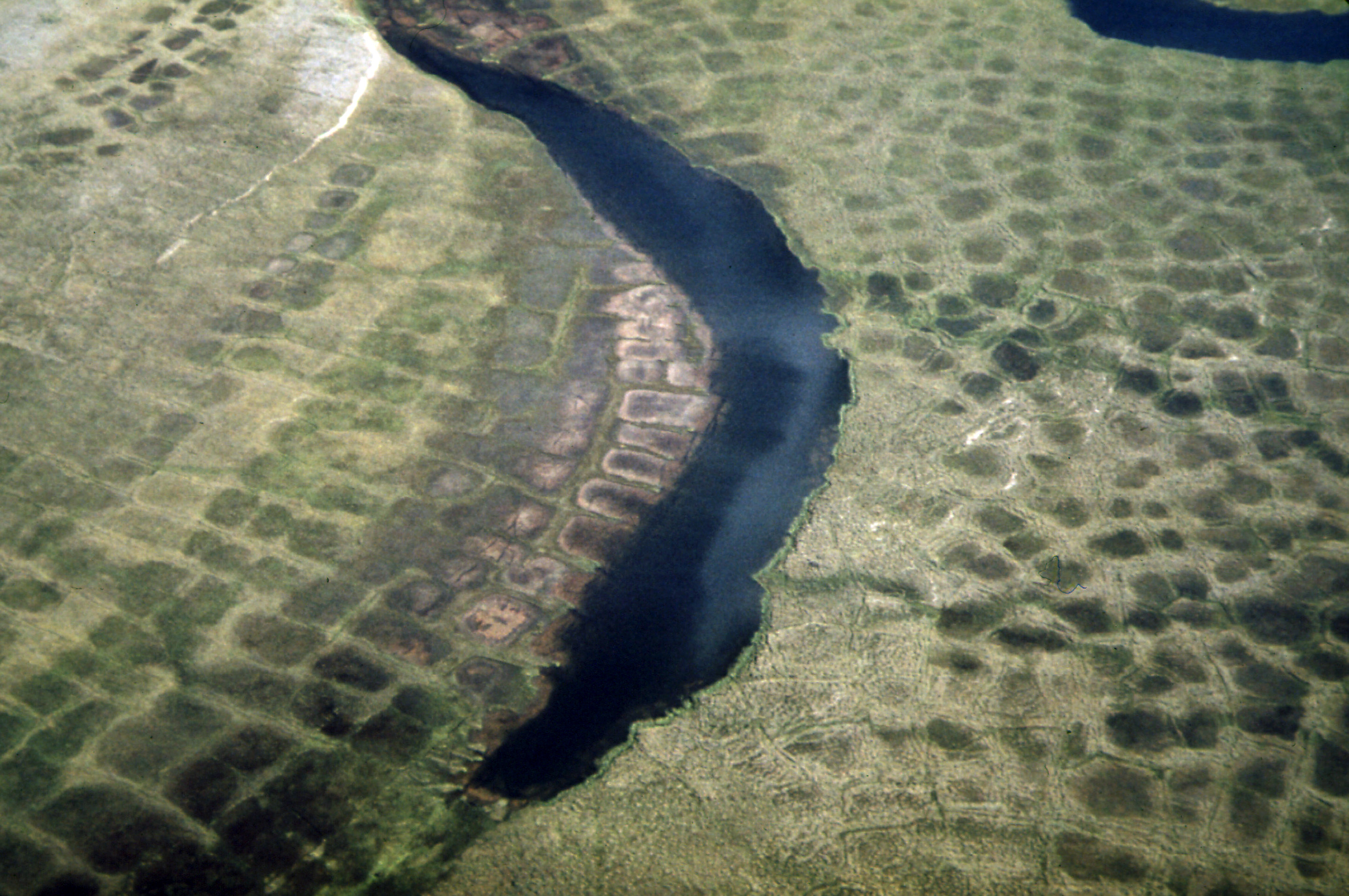 Patterned Ground Shows Ice Polygons (Lattice Outlines) and Typical Summer Arctic Tundra. Patterned Ground, Ice Polygons, and Permafrost Are Found Along the Entire Route of the Line, Although They Are Relatively Rare South of the Yukon River. Alaska (US state). Environmental Protection Agency, Project DOCUMERICA.